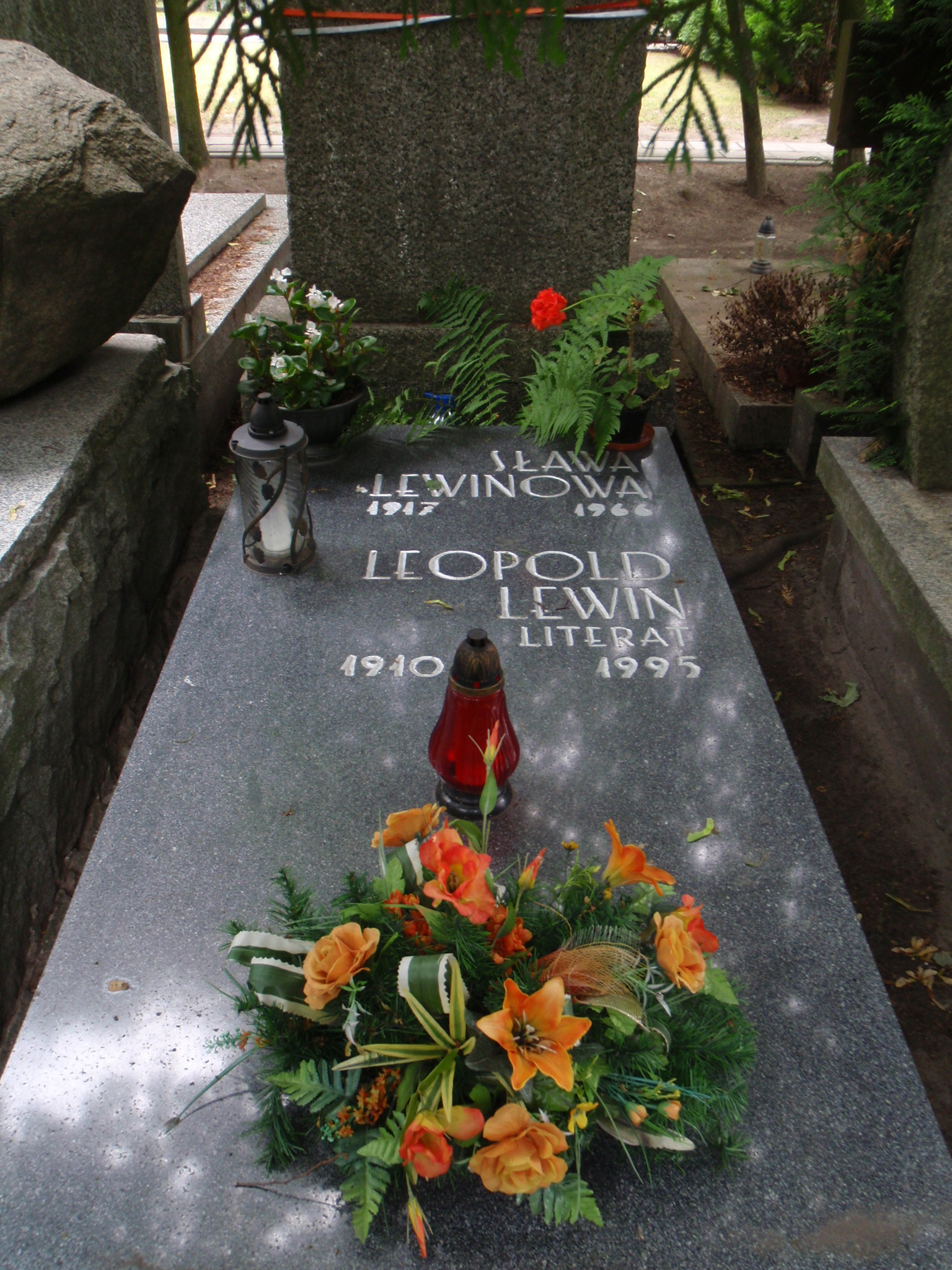 Grave of Leopold Lewin